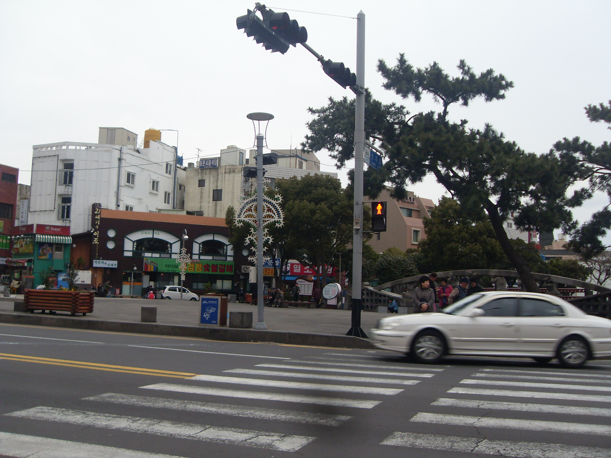 Sanjicheon.